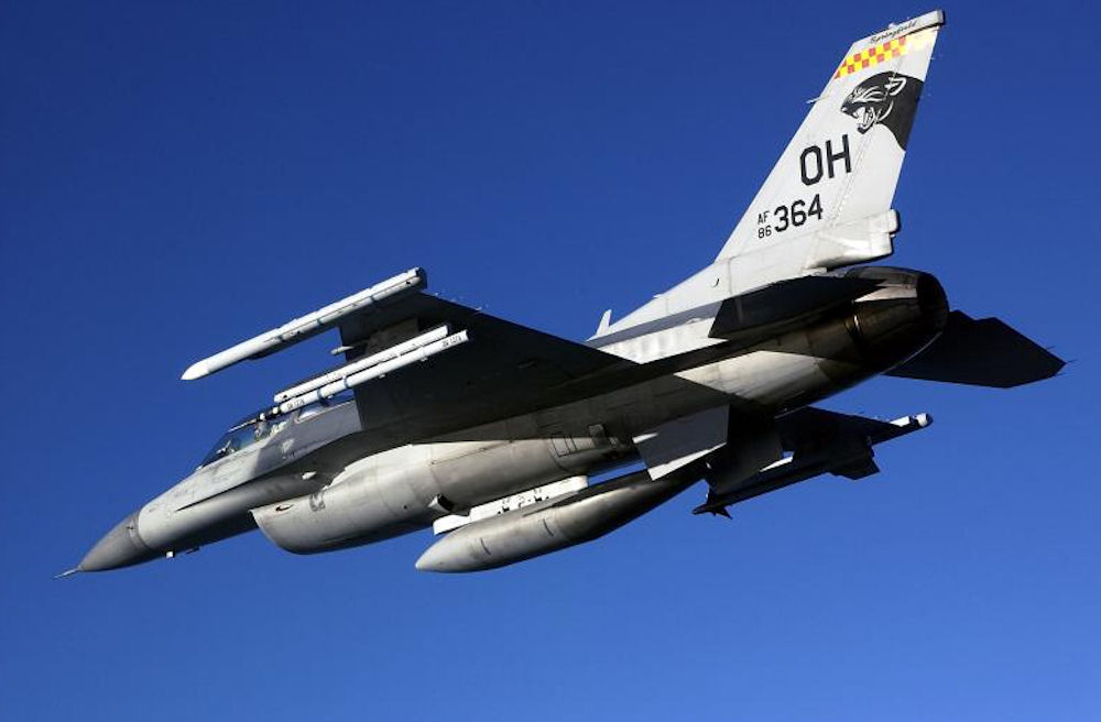 USAF F-16C block 30 #86-0364 from the 162nd FS is on a training mission, armed with AIM-120 AMRAAM missiles, over Savannah, Georgia on January 14th, 2003. [USAF photo by SSgt Jeffrey Allen]